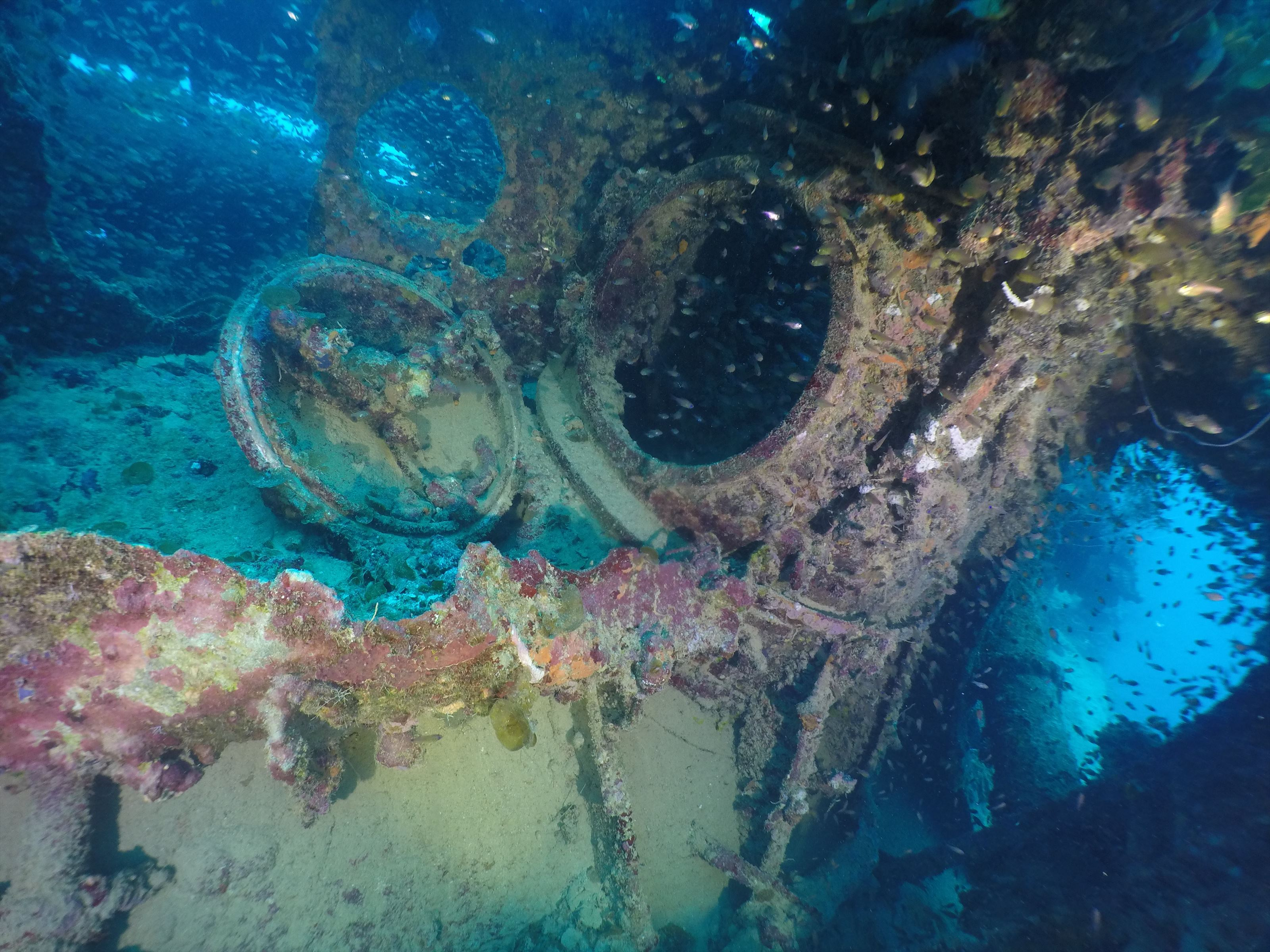 Igo submarine 169